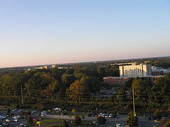 Greenville Downtown in horizon